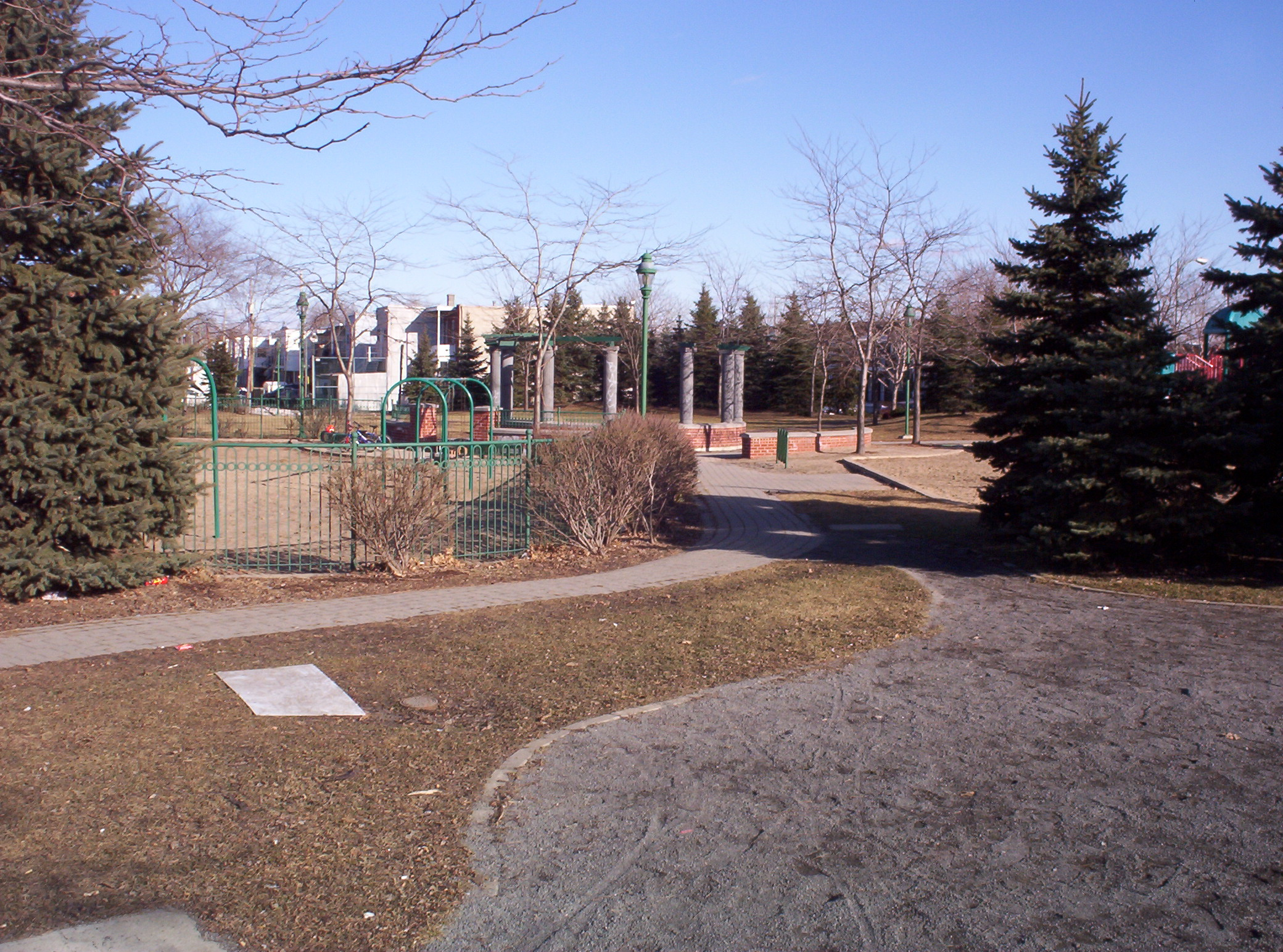 Parc Cooney, Montreal (Verdun), Quebec Author:Colocho Date: March 26th, 2006